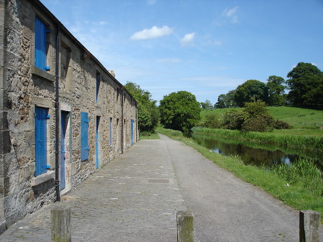 Woodcockdale Stables. These were once stables for the horses which towed barges along the Union Canal. Theya re now the headquarters of the West Lothian Sea Scouts!!